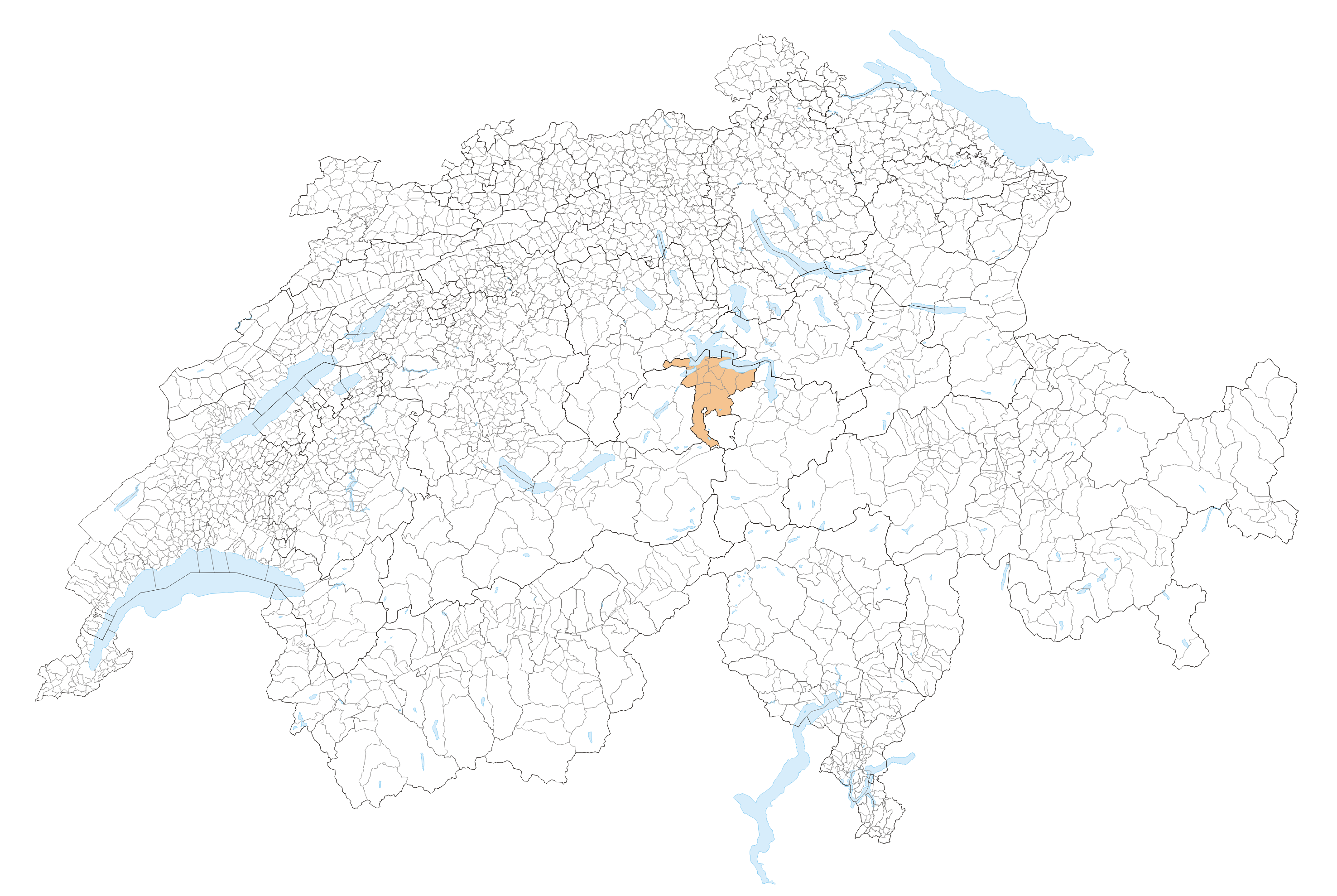 Kanton Nidwalden